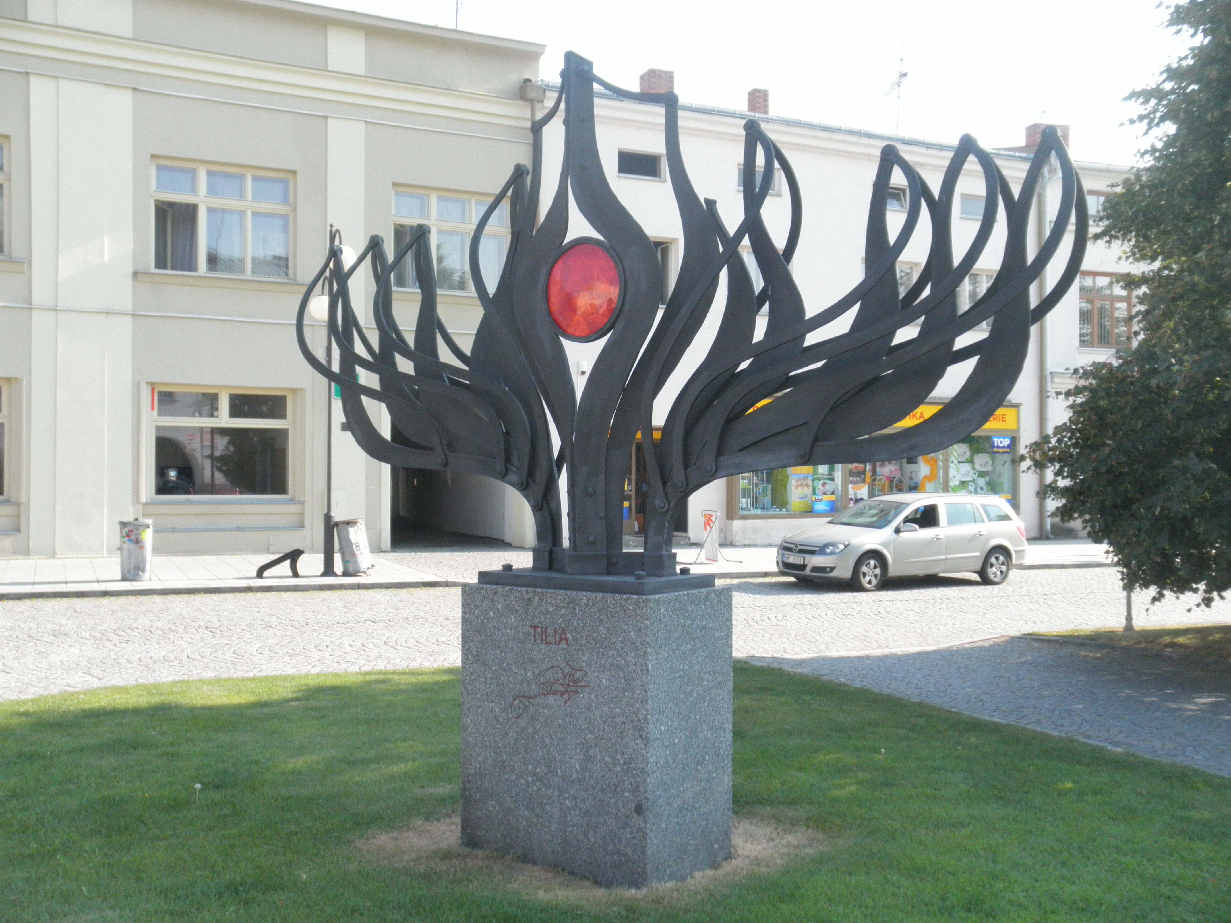 Sculpture Tilia by Michal Gabriel in Alfred Habermann, Czech Republic from 2009.